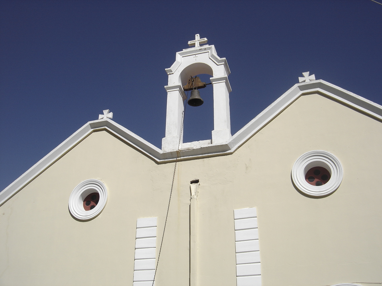 The church of Afentis Christos in Kato Symi, Iraklion Prefecture.